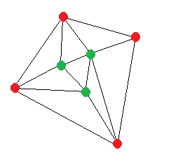 an example of the edge theorem